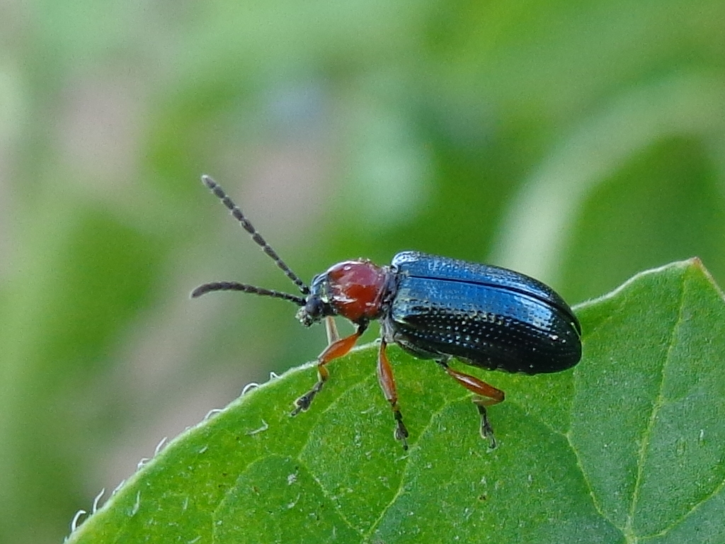 Oulema melanopus. Found in Bērzi village near Bauska city, Latvia